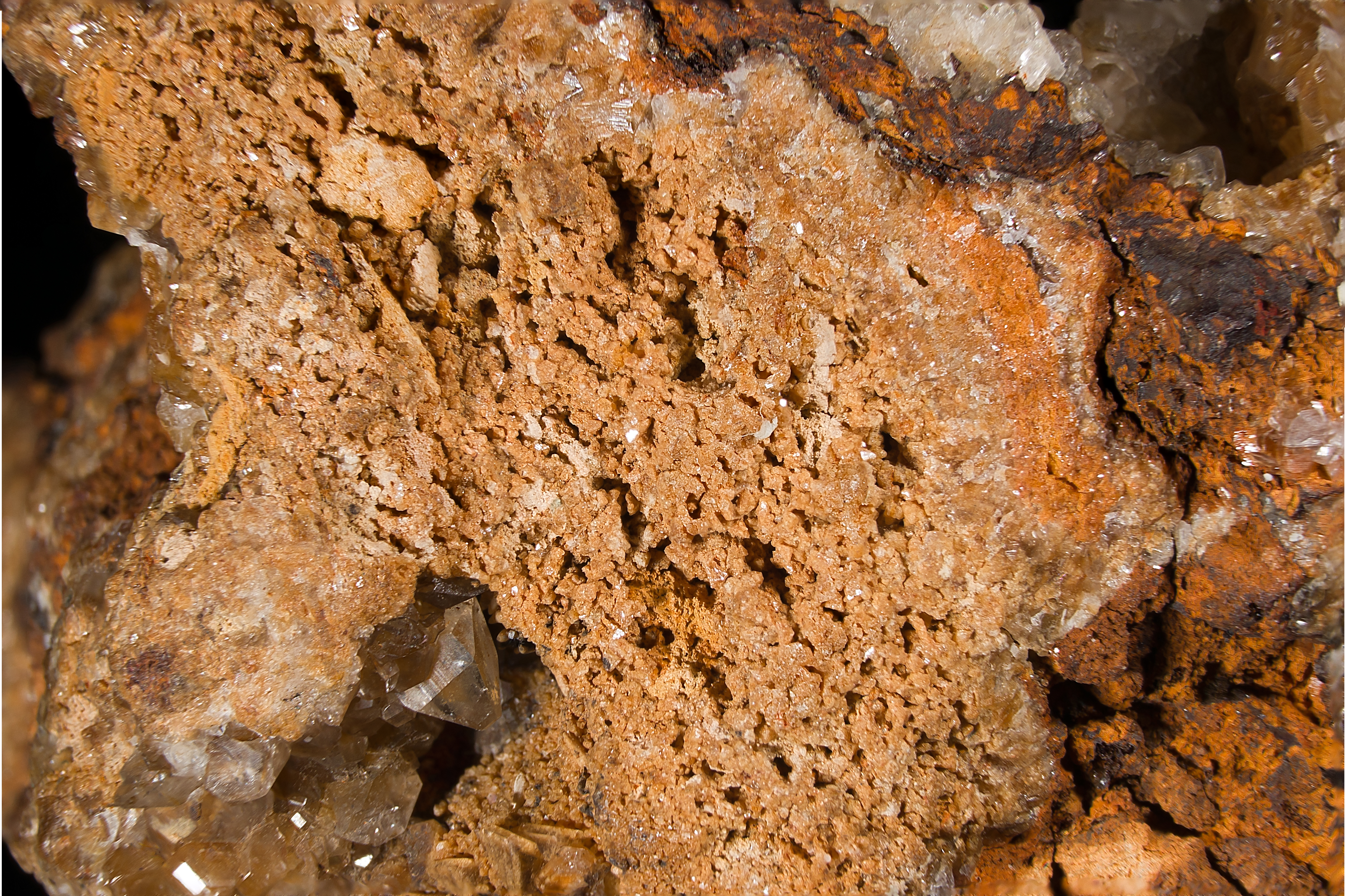 Hopeite and Hemimorphite Locality: Vieille Montagne (Altenberg; Kelmisberg), Moresnet, Plombières-Vieille Montagne (Plombières-Altenberg) District, Liège Province, Belgium. Size: View of 3.6 cm.